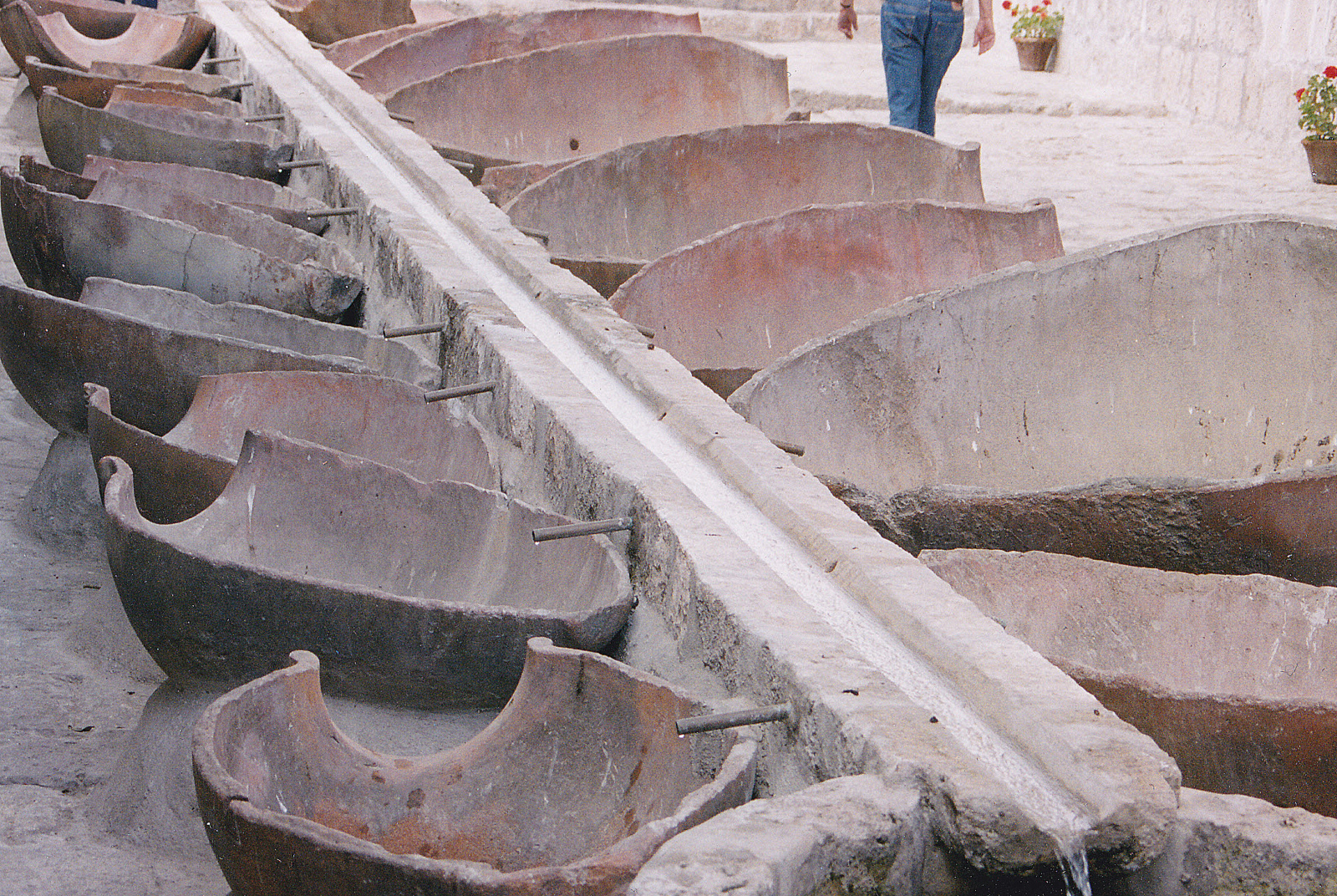 Pools Santa Catalina monastery Arequipa in Peru